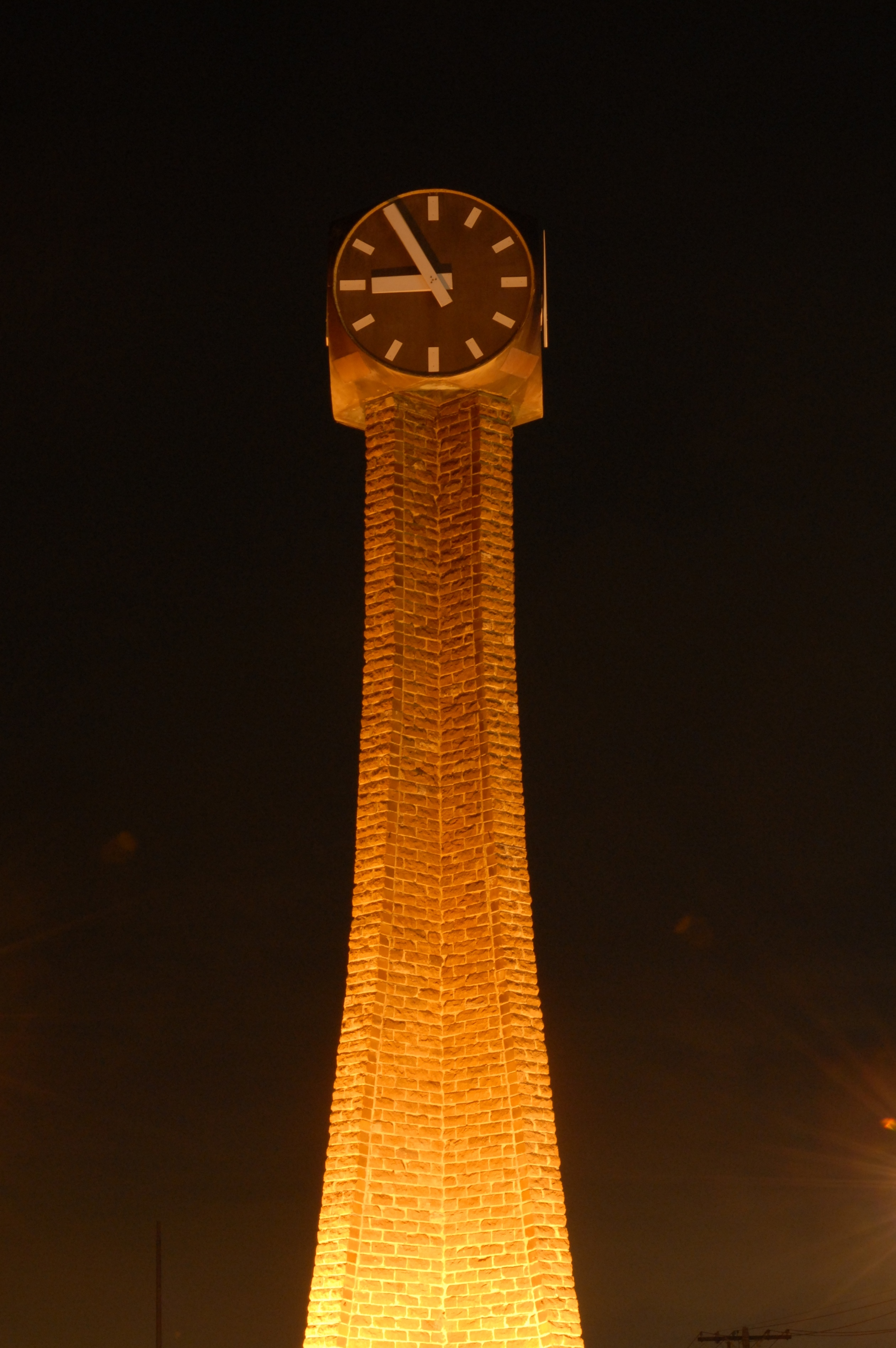 The Black Rock Clock Tower is synonymous with the Melbourne suburb of Black Rock in Victoria, Australia. The clock tower is located in a roundabout at the intersection of Beach Road and Balcombe Road. Latitude: -37.97553 Longitude: 145.0159